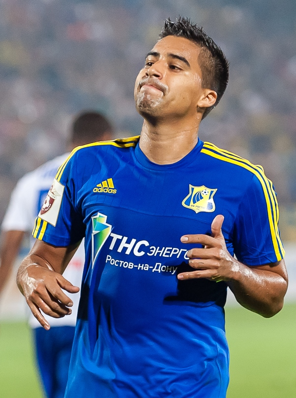 Christian Noboa